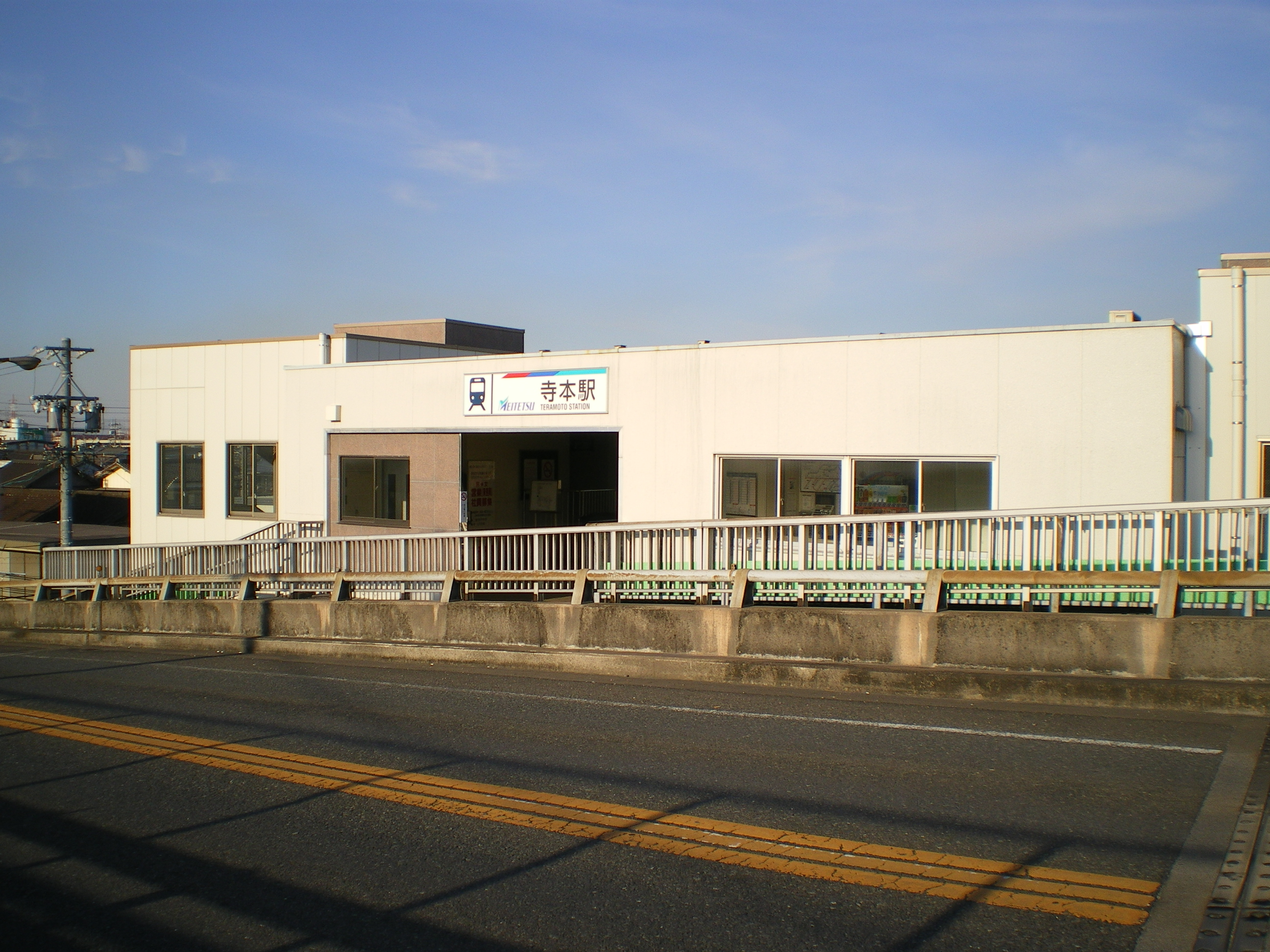 Nagoya Railroad Tokoname Line Teramoto Station Building